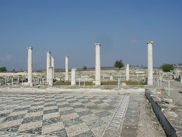 Pebbles mosaic in a Pella house atrium (Macedonia).